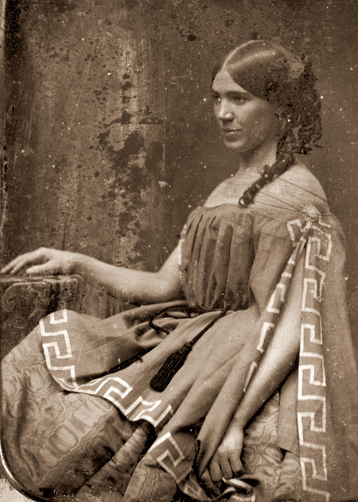 Half plate daguerreotype of Matilda Heron